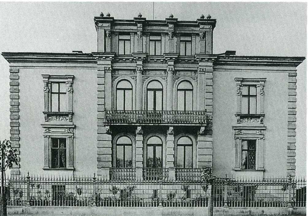 Dresden Haus Wiener Straße 36 (neue Nr. 22). Aufnahme um 1875 (zerstört)